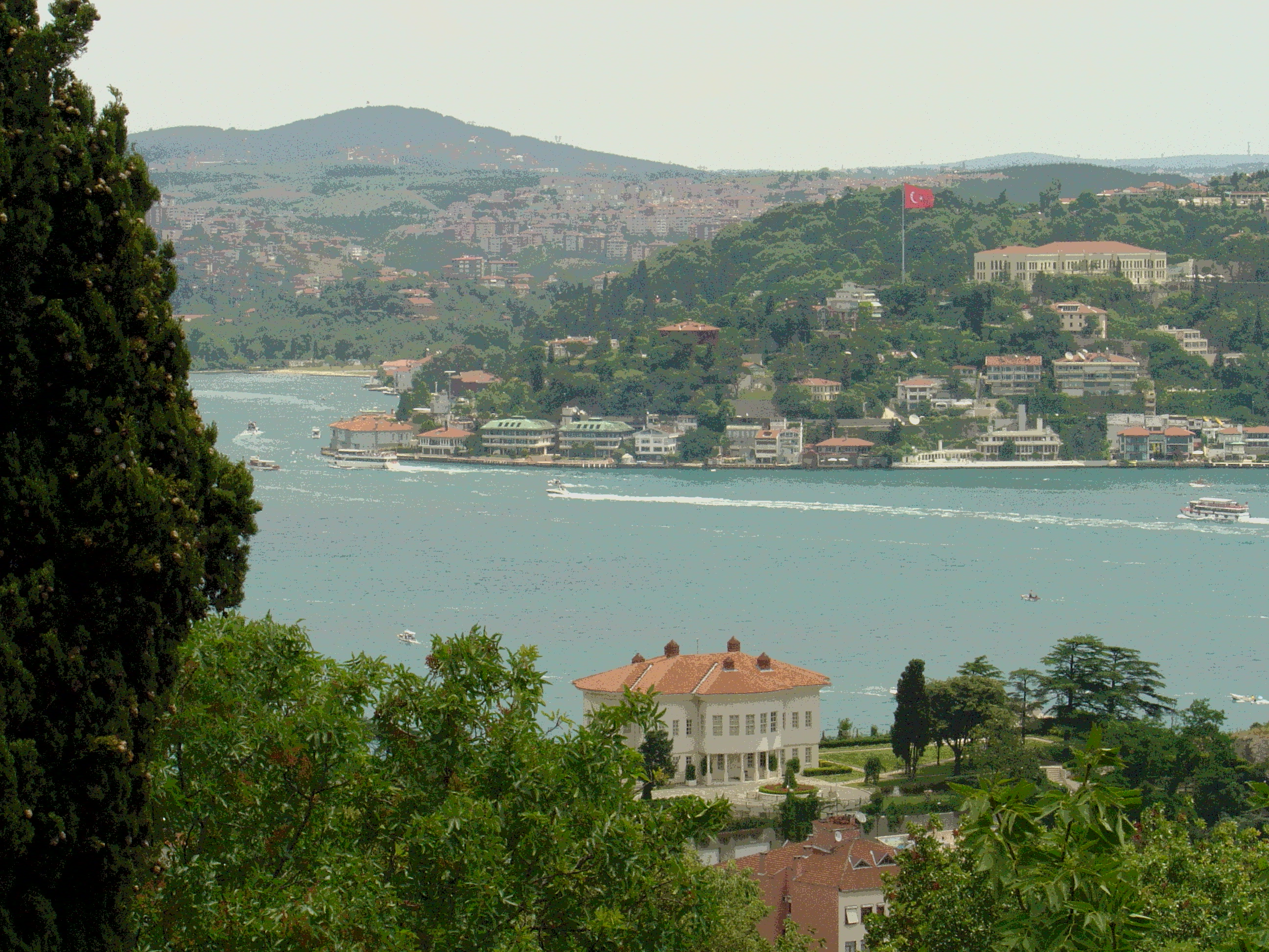 Taken from the plateau of American Robert College in Arnavutköy, Istanbul.